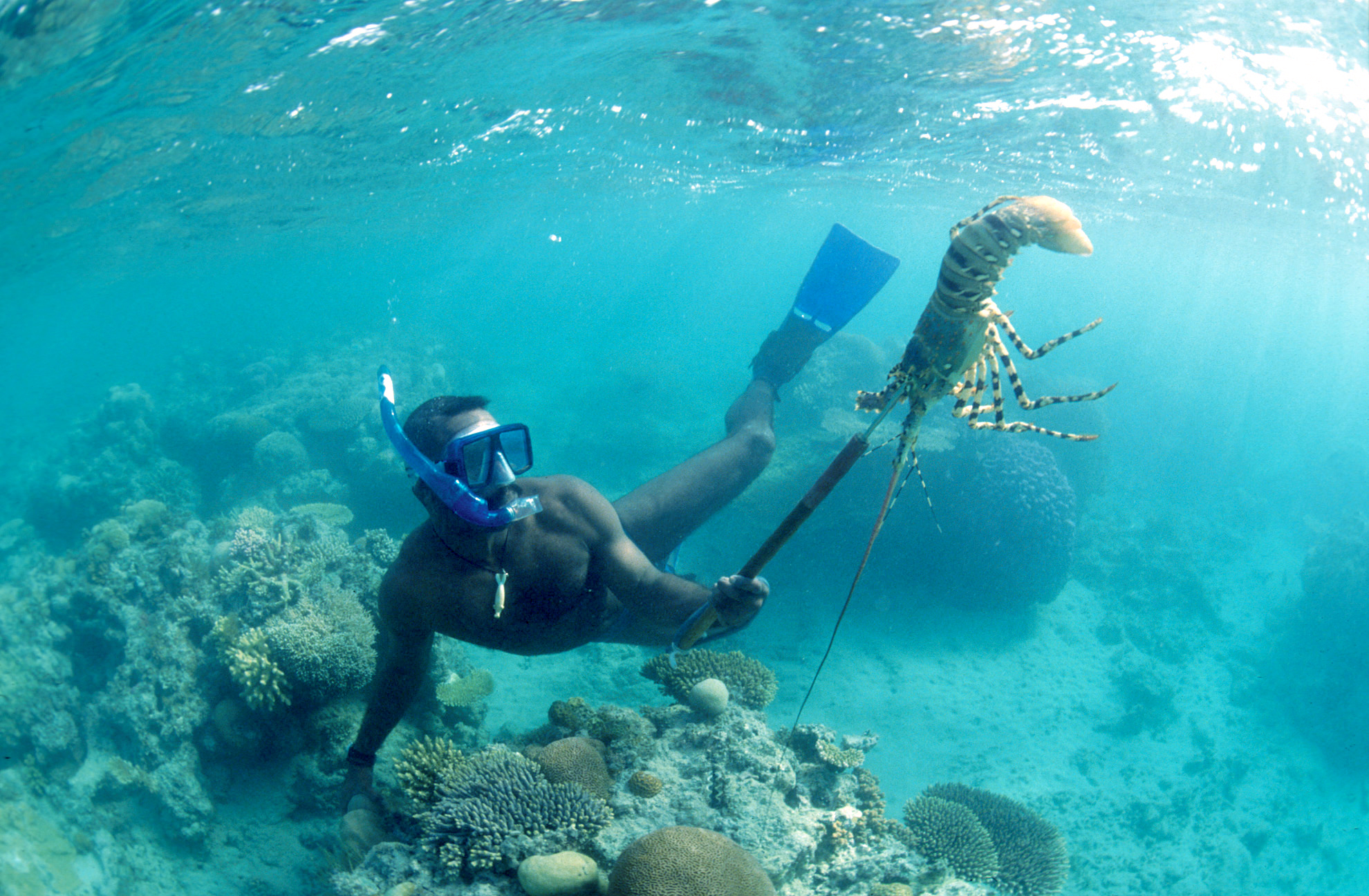 Staff from CSIRO Marine Research have developed a lobster population model for the Torres Strait rock lobster fishery. The model produced estimates of annual natural and fishing mortality rates, and quantified uncertainties in the relationship between sustainable yield and fishing effort. The outputs also included comprehensive evaluation of a broad range of management strategies for the lobster fishery.